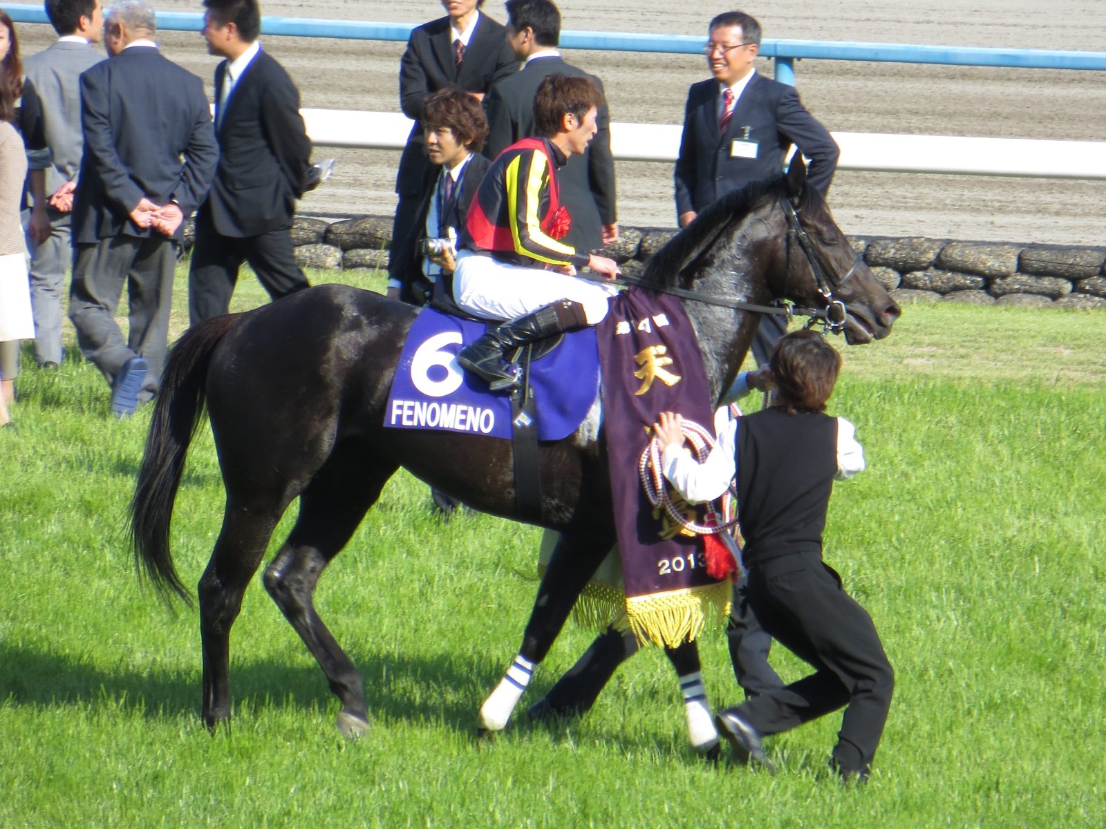 Fenomeno (Racehorse of Japan. 147th Tenno Sho spring winner).